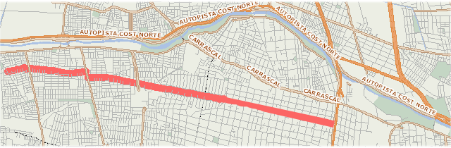 Map of Avenida Salvador Gutiérrez. Santiago, Chile